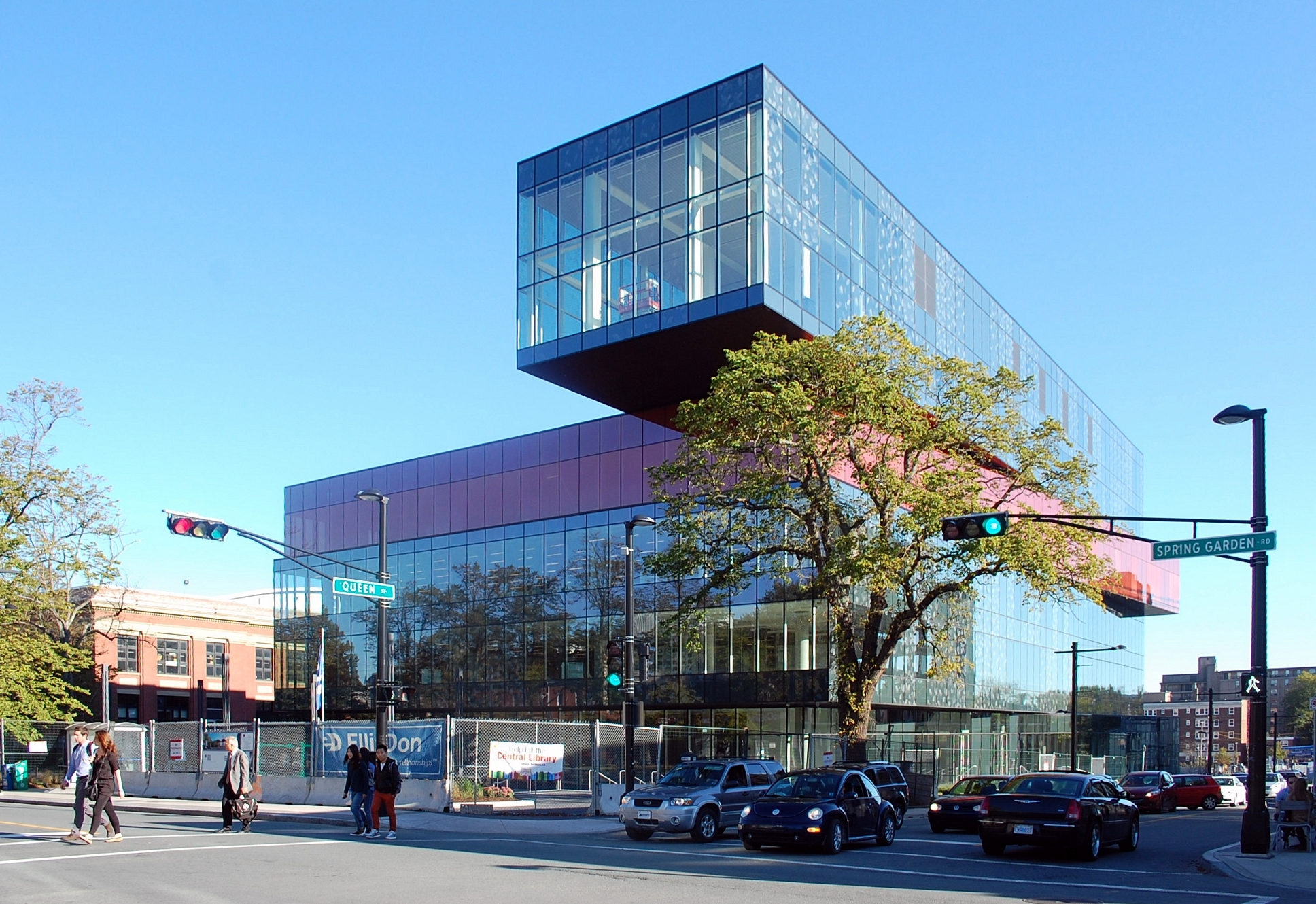 The new Halifax Central Library, nearing completion.